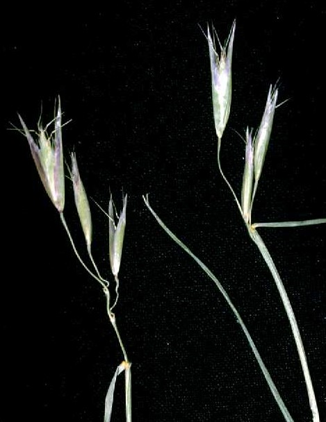 Danthonia californica from Robert H. Mohlenbrock. USDA NRCS. 1992. Western wetland flora: Field office guide to plant species. West Region, Sacramento. Courtesy of USDA NRCS Wetland Science Institute.